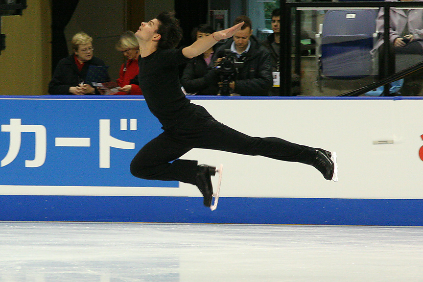 Stéphane Lambiel at the 2006 Skate Canada International.